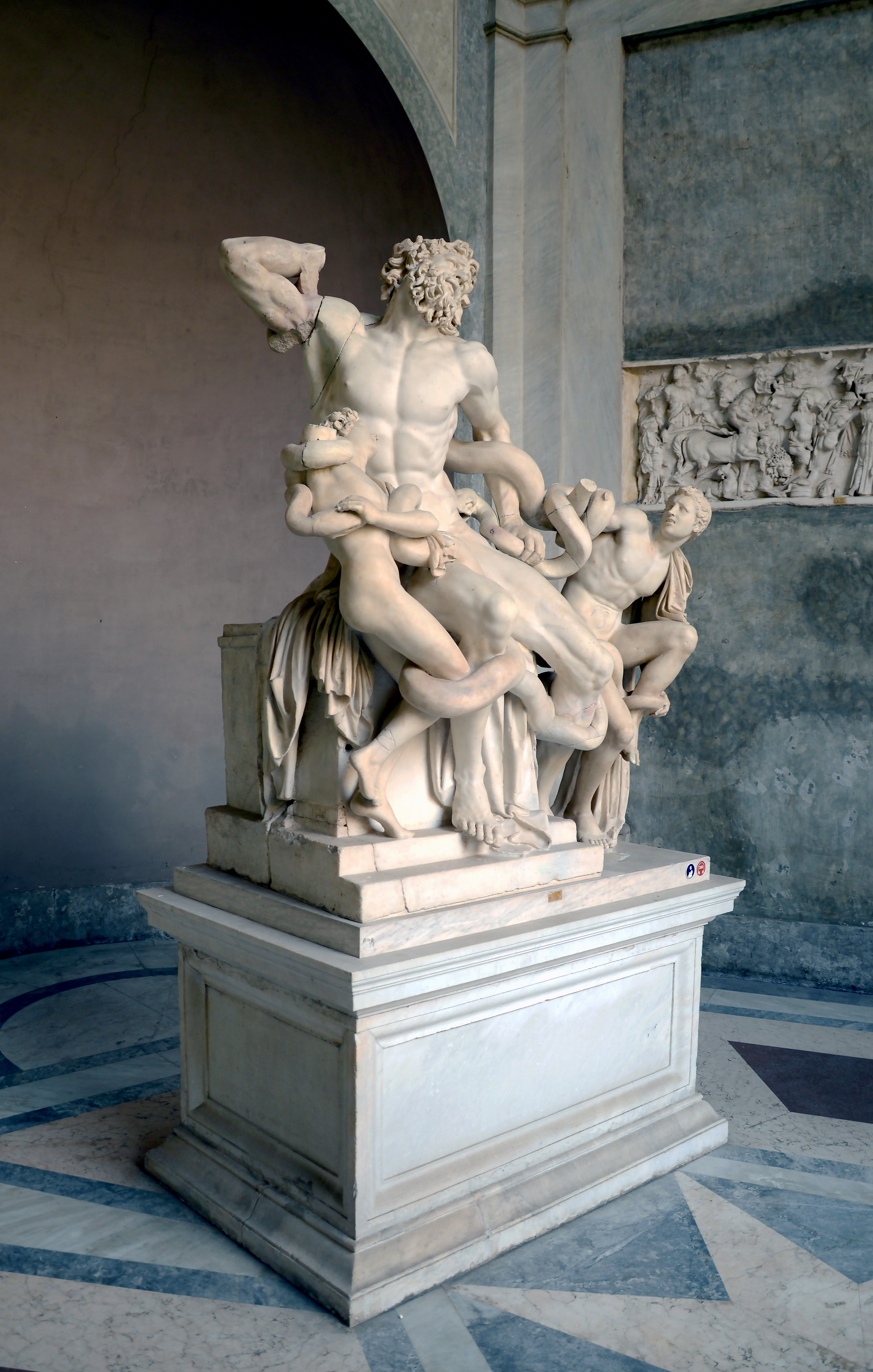 Laocoon group, lateral view.